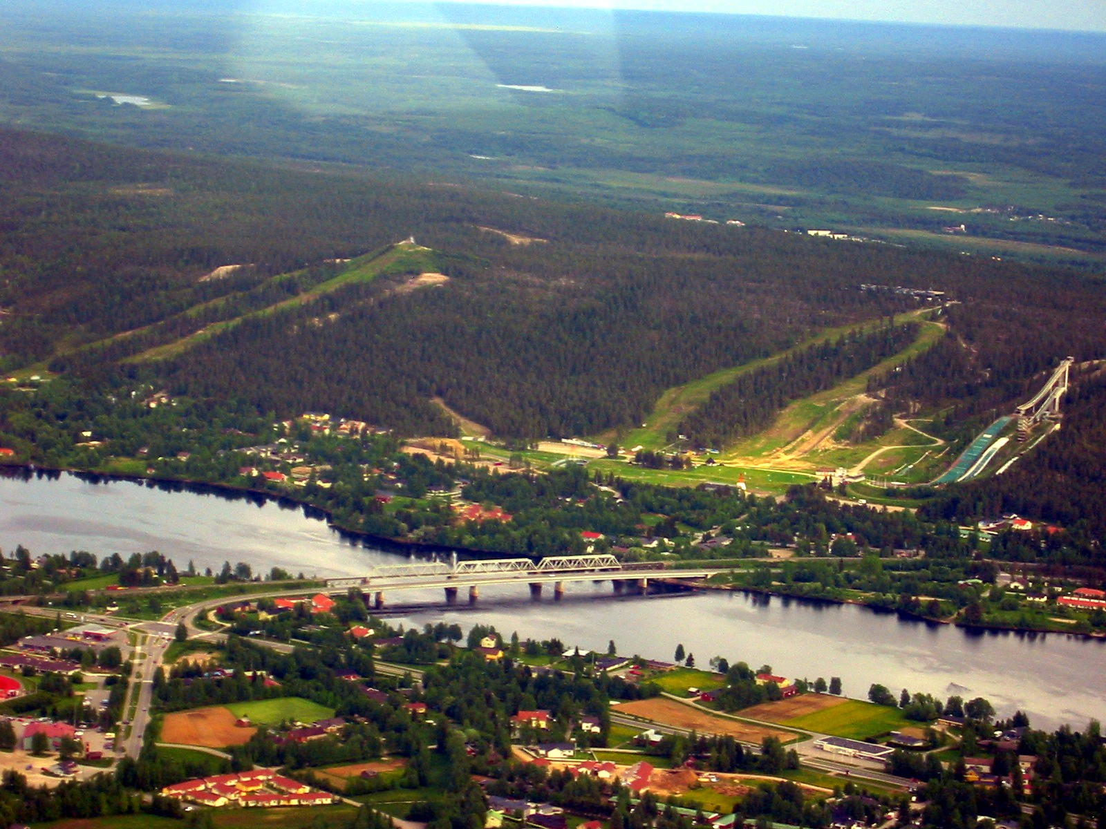 Aerial photo of Rovaniemi, Finland